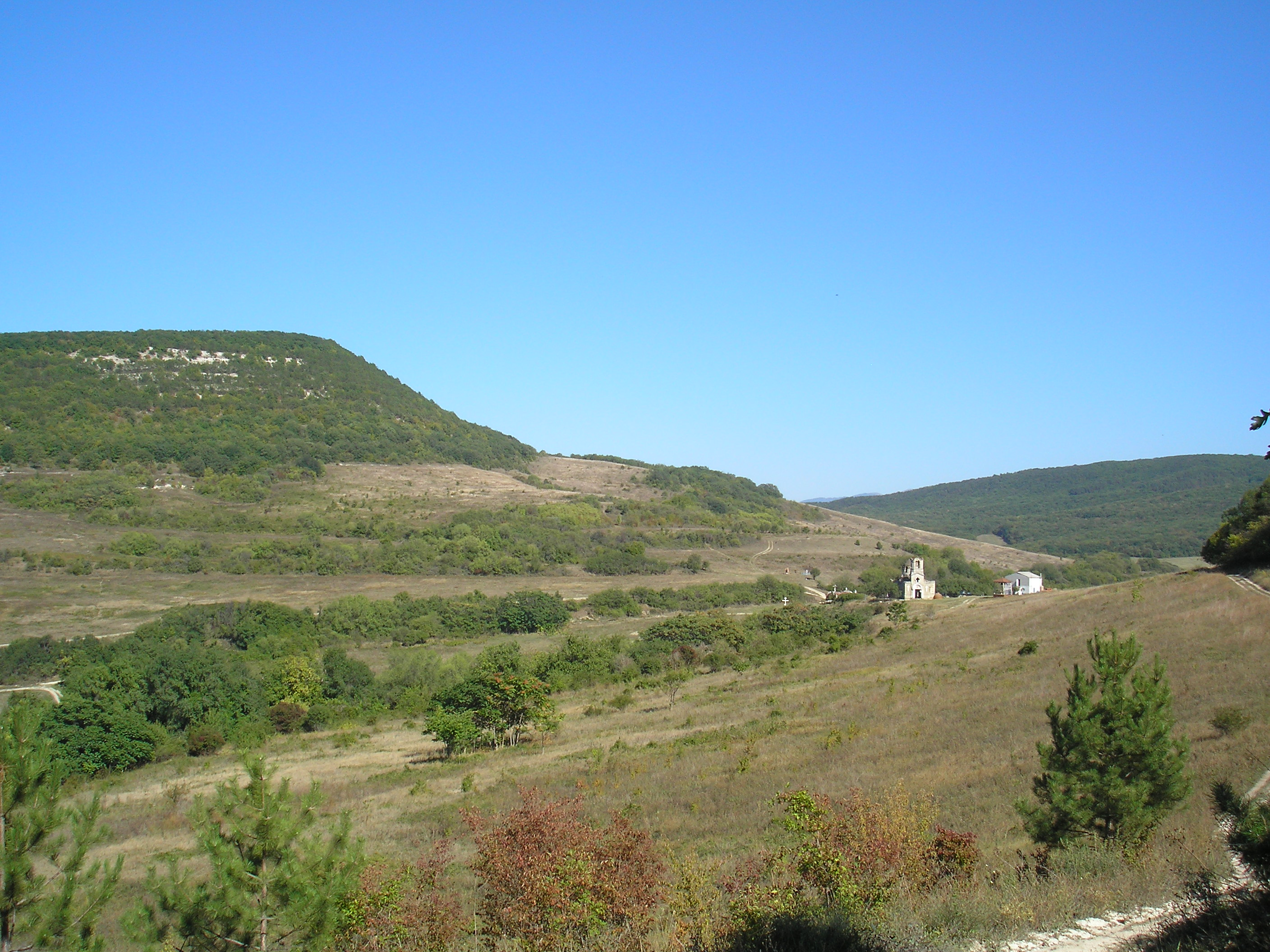 Former village Laki (Goryanka), Bakhchisaray Raion, the Crimea.